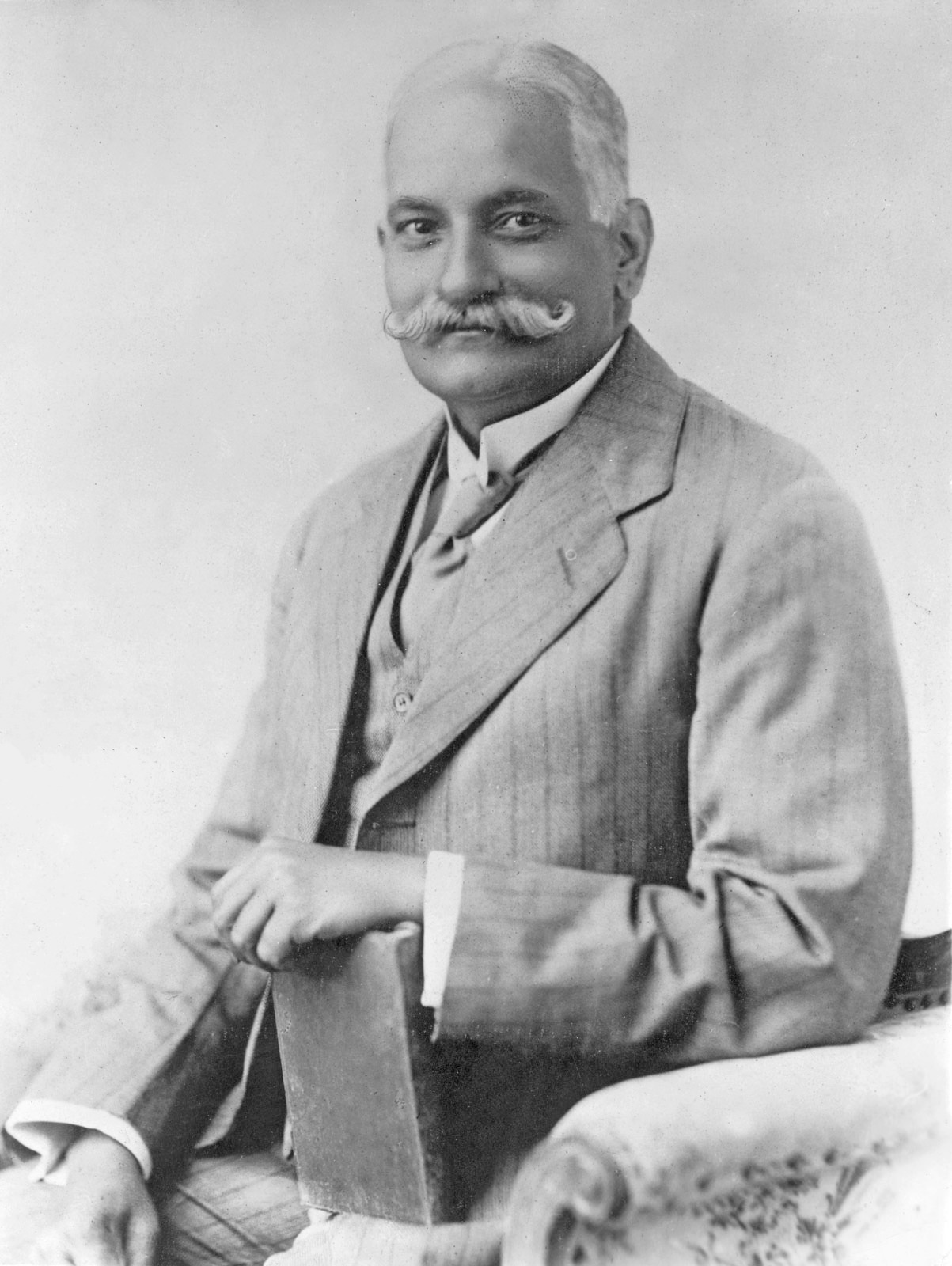 Motilal Nehru (6 May 1861 – 6 February 1931)